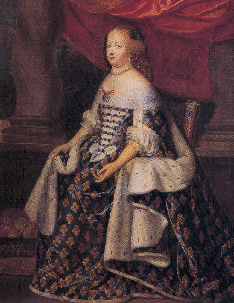 Portrait of Marie Thérèse of Austria (1638-1683) as Queen of France